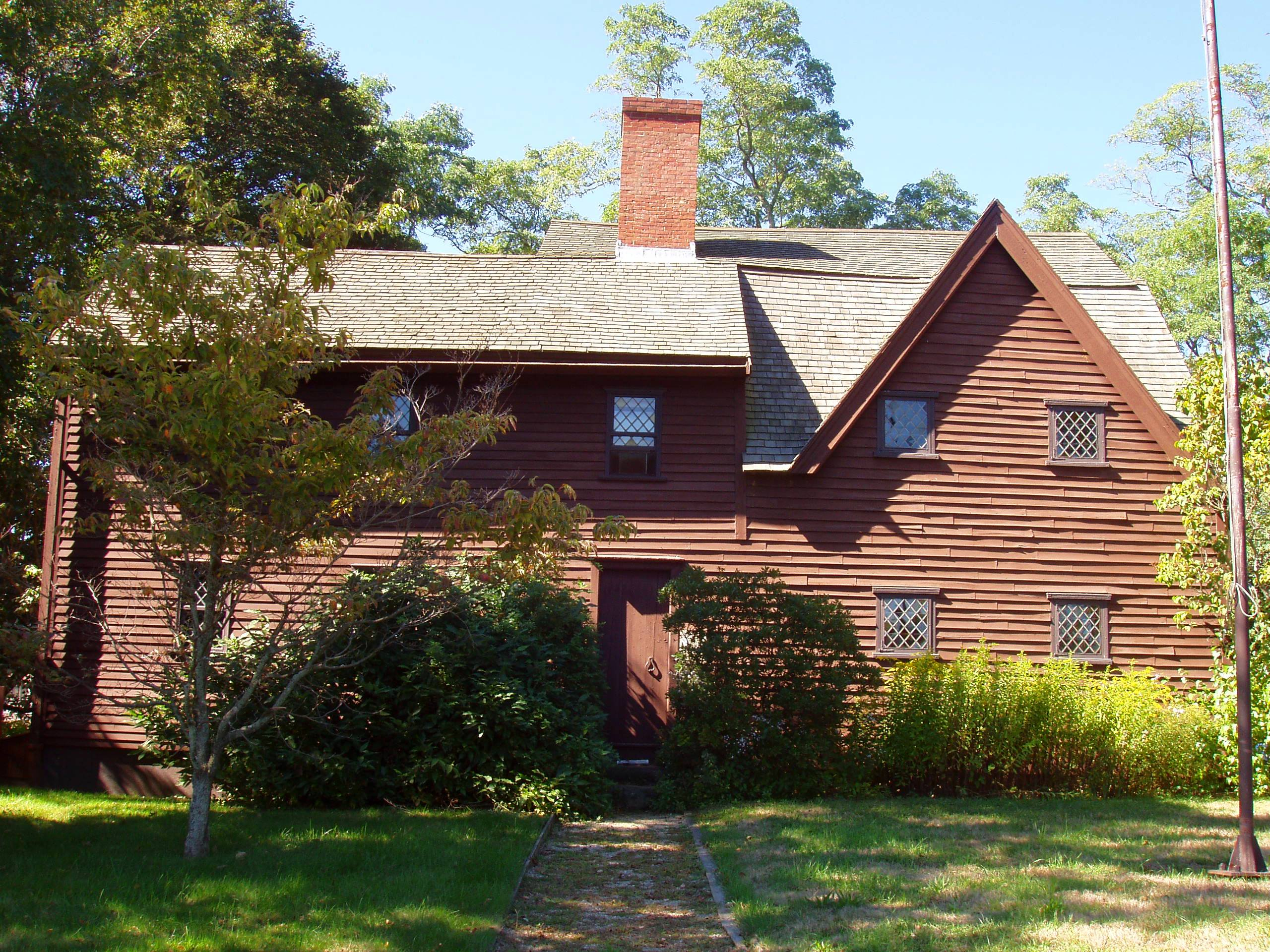 John Balch House - Beverly, Massachusetts, as seen from Cabot Street. Photograph taken by me, September 2005.